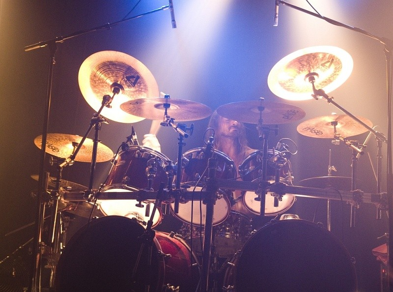 Winterfest 2009, Deicide, Warszawa, Progresja, 22.01.2009